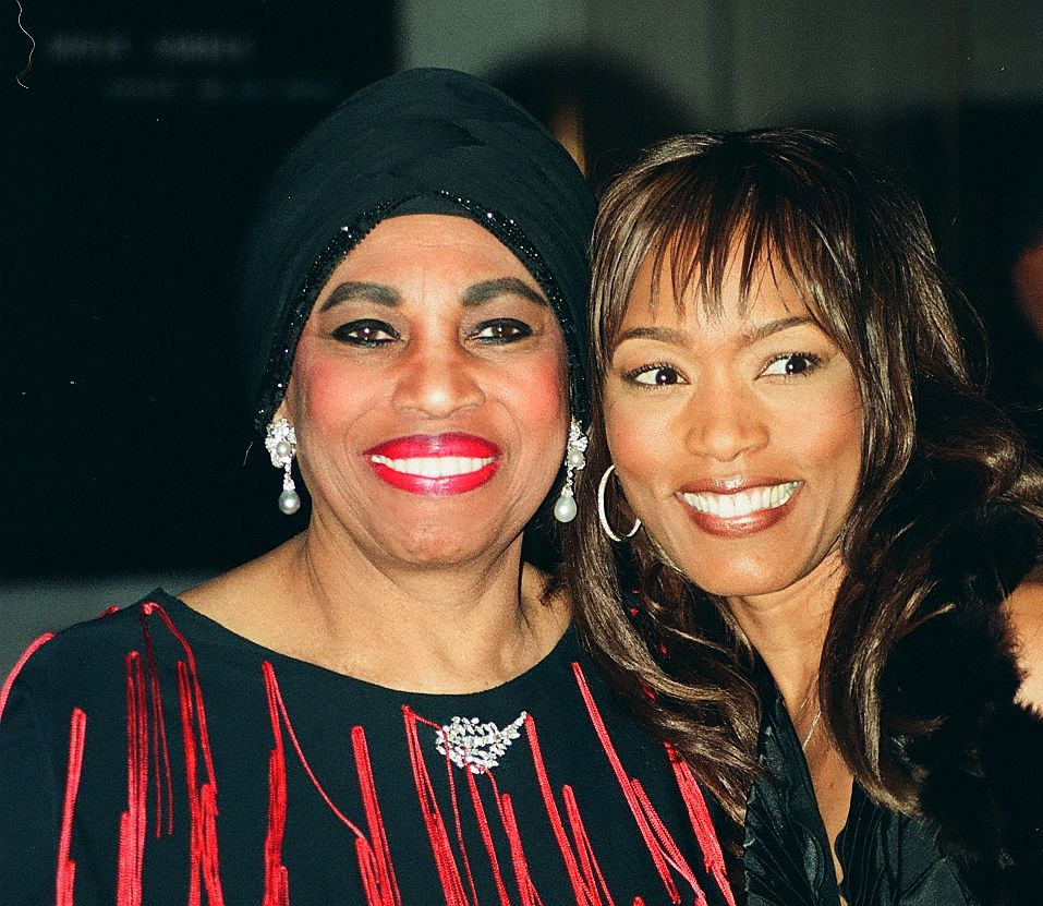 From N.A.B.O.B. dinner 2002 Wash D.C.